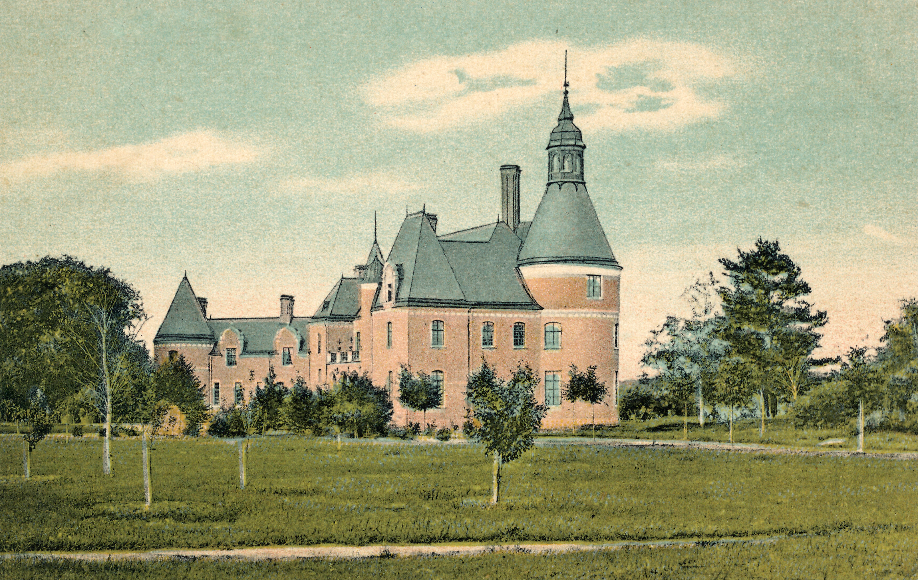 Lejondal manor